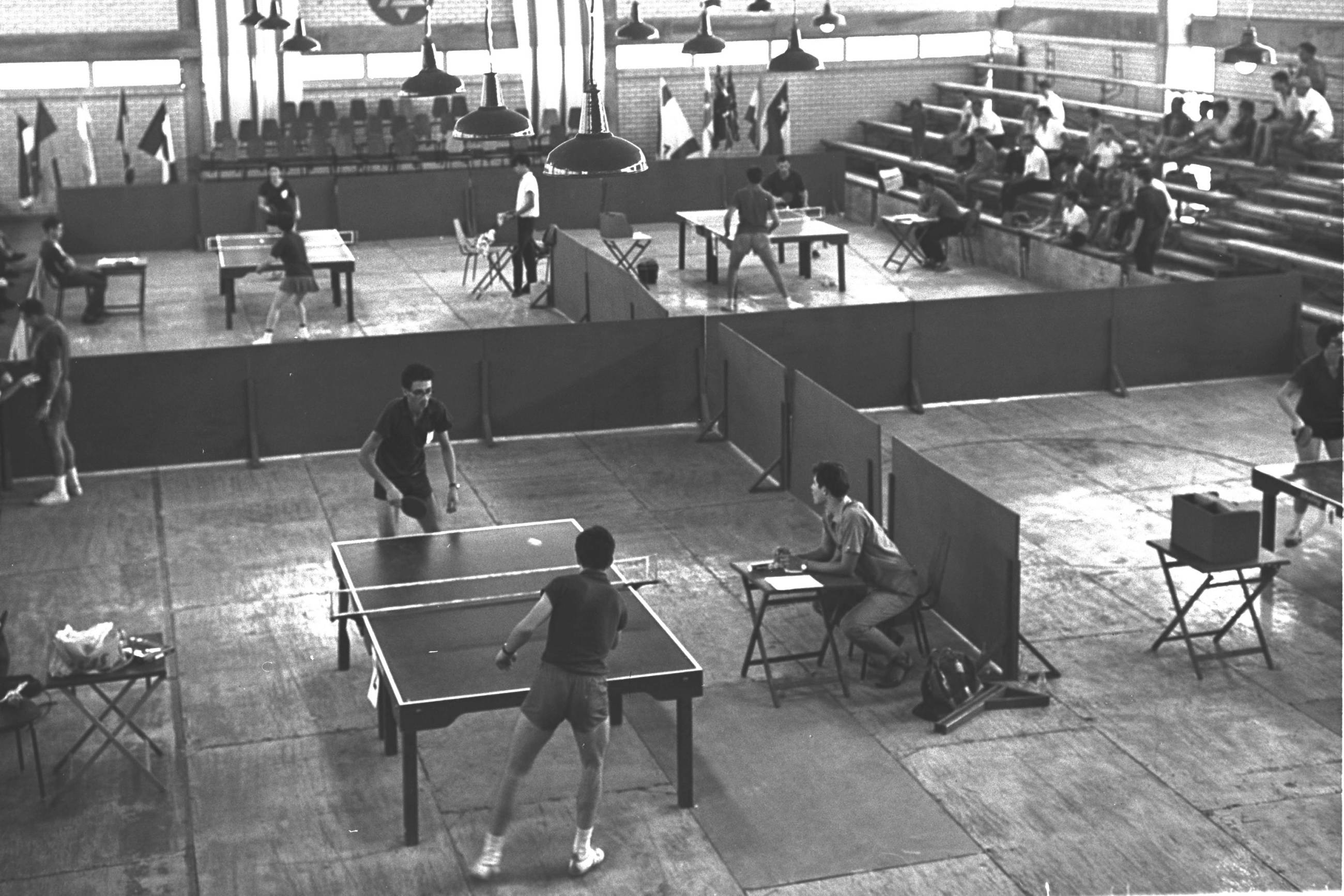 A table tennis competition during the 7th Maccabia Games.